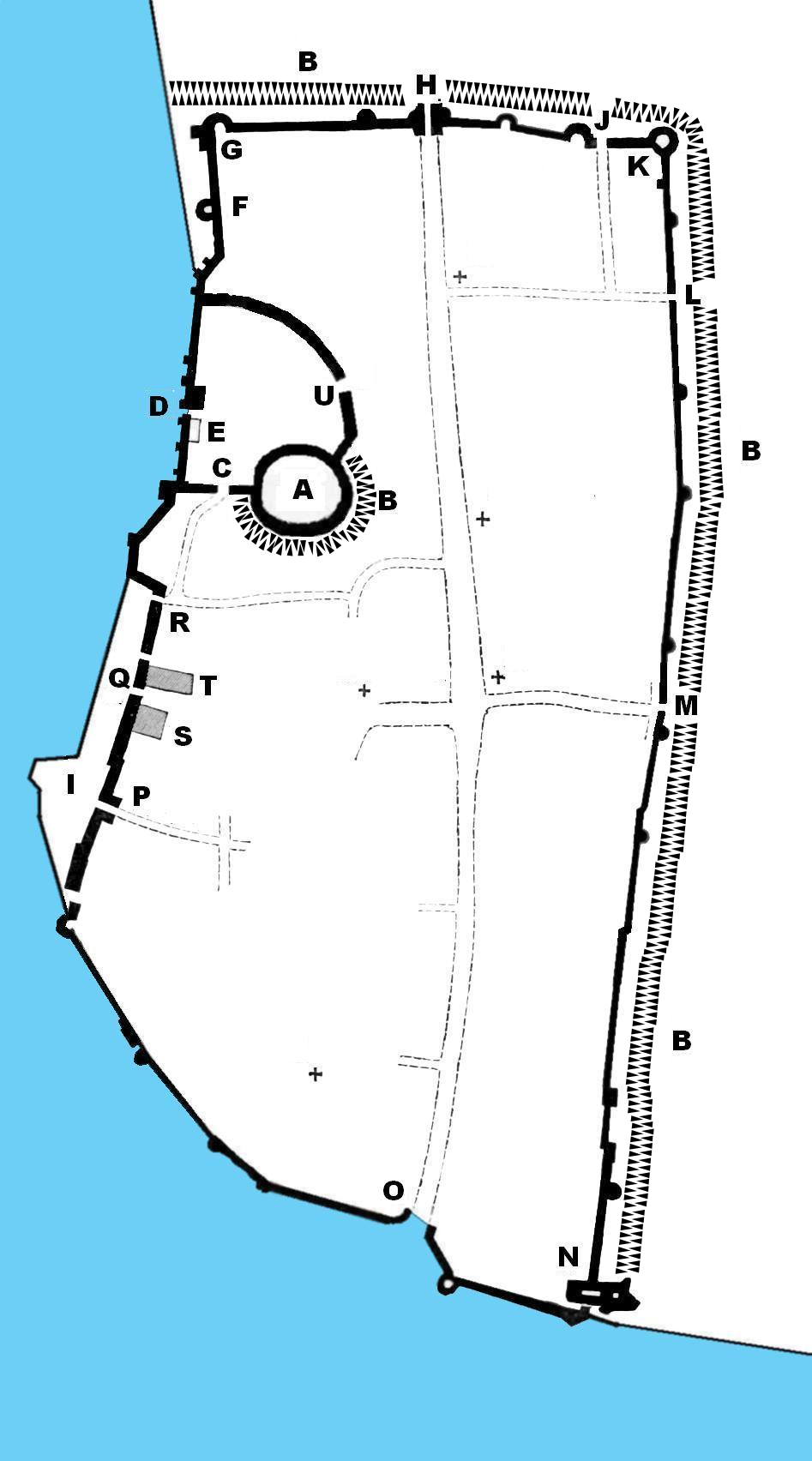 A map of medieval Southampton, cleaned up; Speed's early 17th century outline plan of the docks added; and checked for accuracy against Brown's later map in "Class and Rubbish", in Funari's "Historical Archaeology"